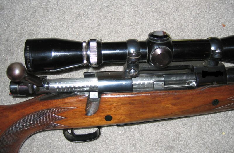 Bolt action of Winchester model 70